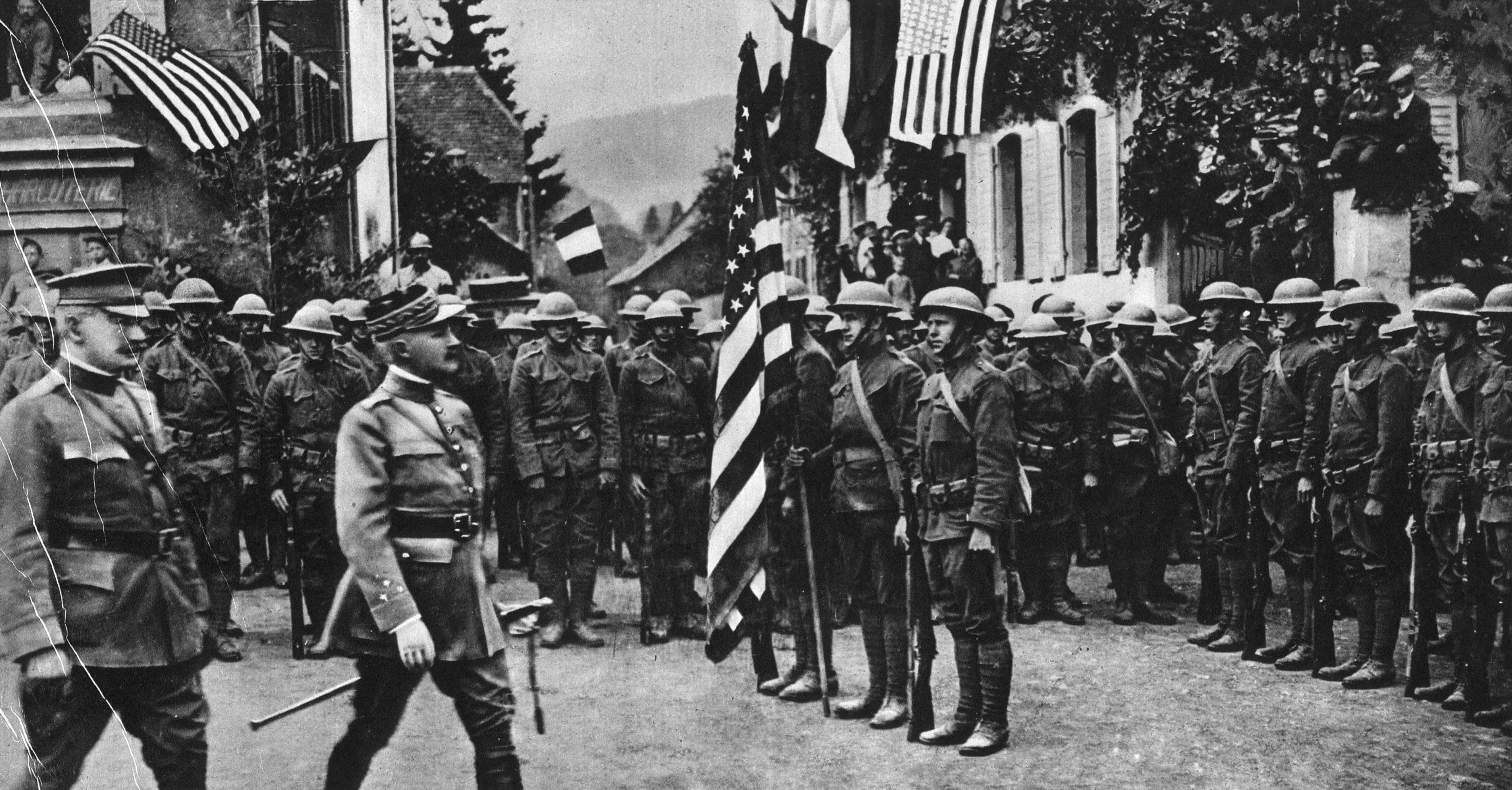 Original caption: American troops on German soil at Massevaux, Alsace, reviewed by their commander Major Gen. William G. Haan, accompanied by General Boissondo, French commander in that sector. (Image slightly digitally altered to remove graphical inlay on the bottom.)